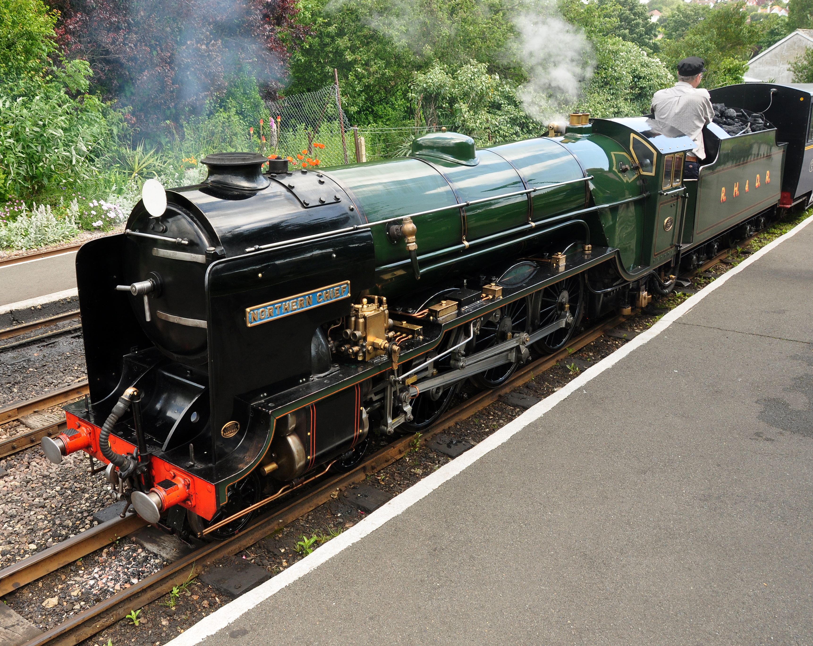 Northern Chief at Hythe station on the Romney, Hythe and Dymchurch Railway